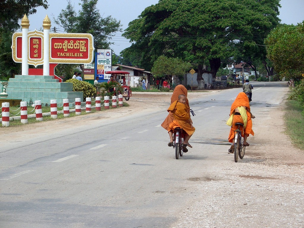 Tachileik entrance, Myanmar